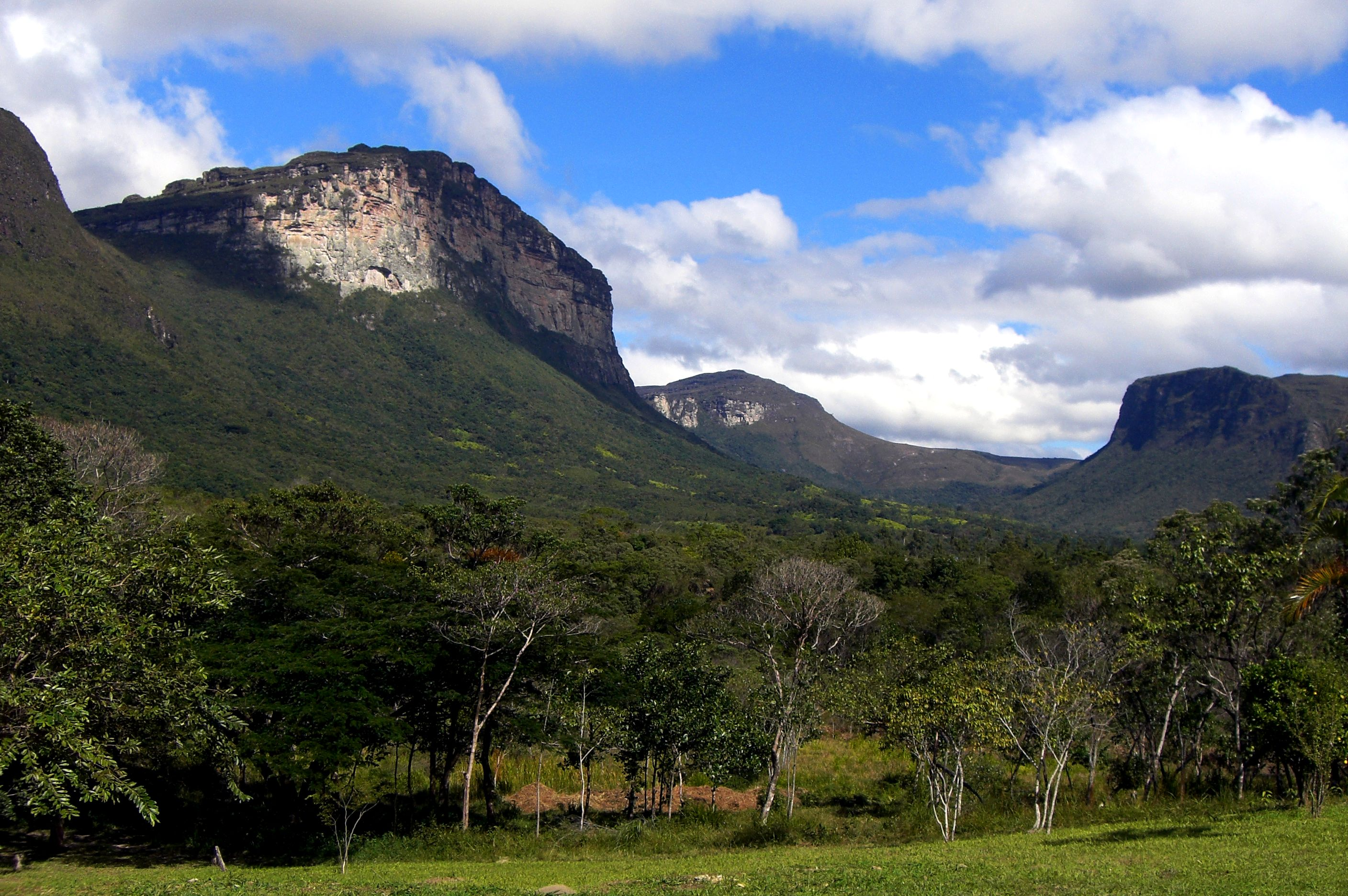 Sight of Capão Valley from Lothlorem, Palmeiras, Bahia, Brazil.